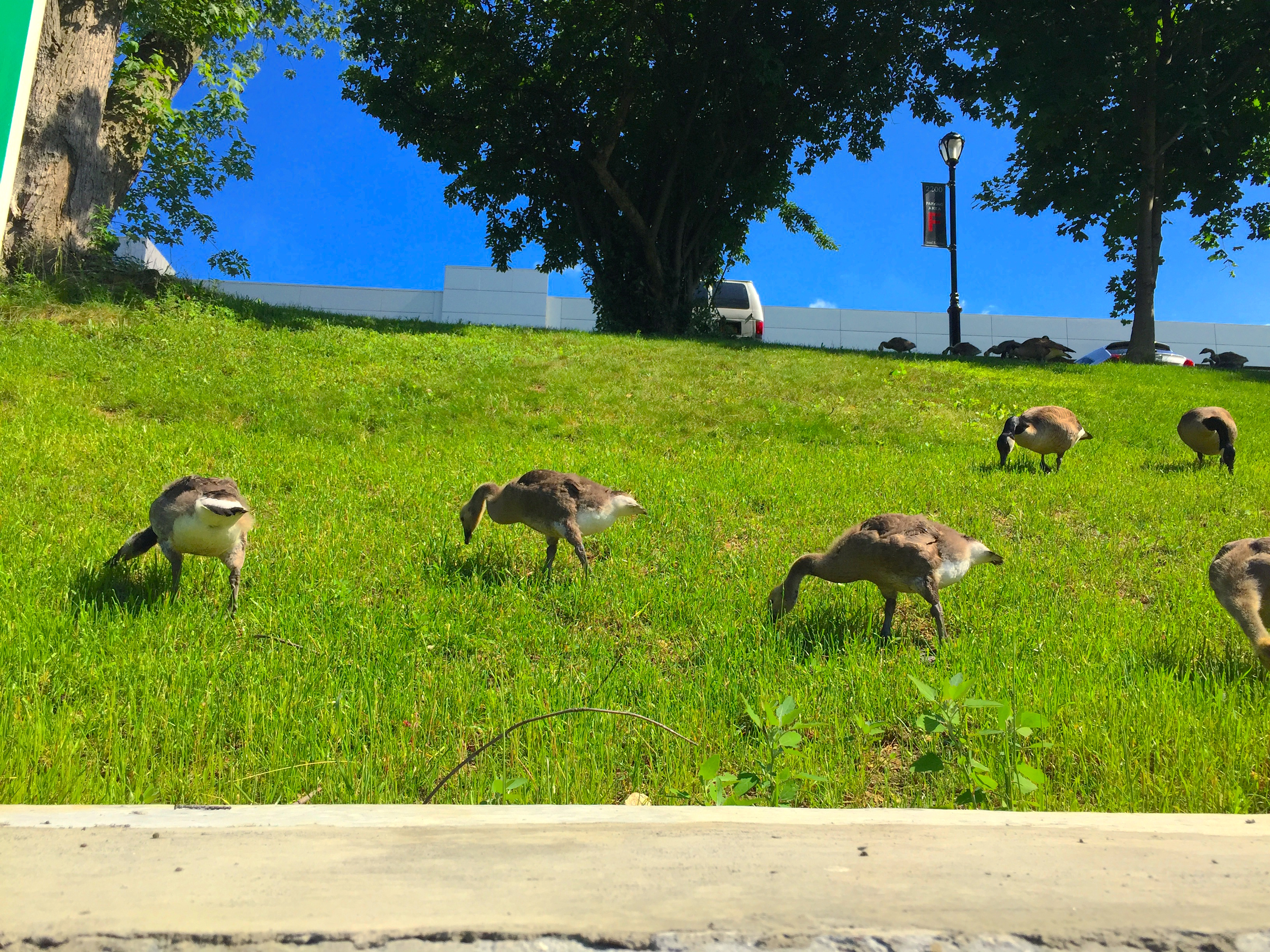 Canada Geese in East Hills, New York